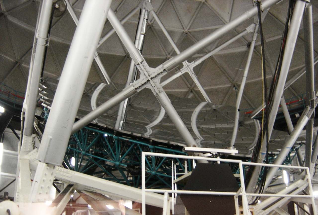 Inside the Hobby Eberly Telescope's dome